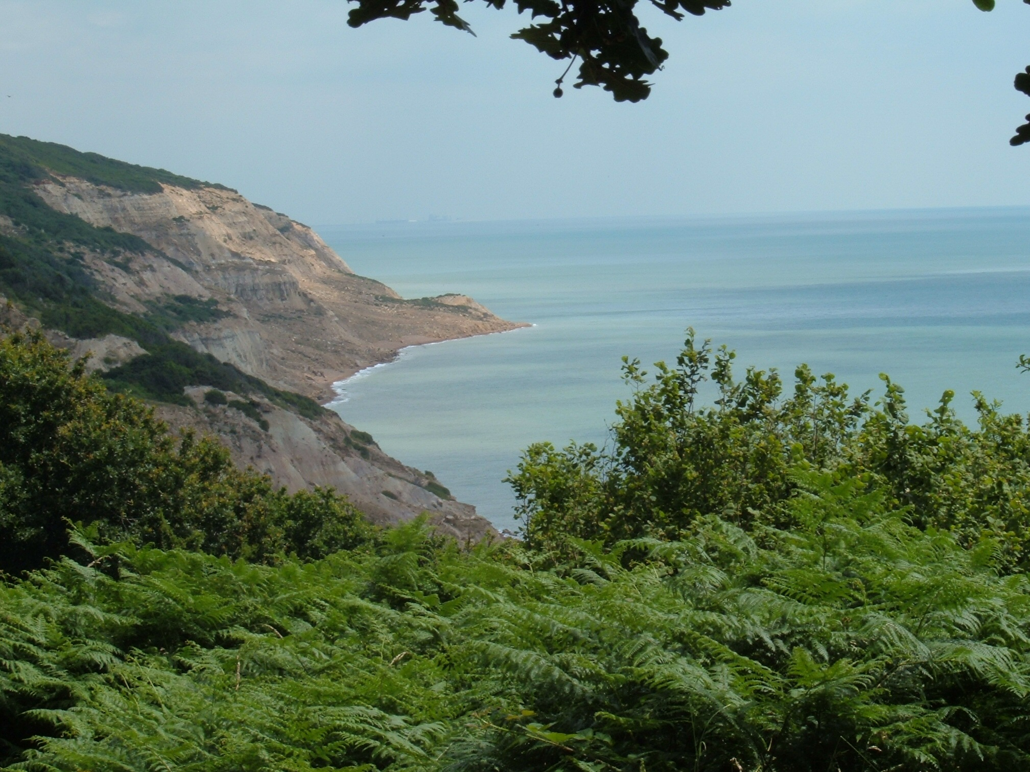 Covehurst Bay, near Hastings, Sussex, England, looking east from cliff top at high tide. Taken by myself 21 July 2005